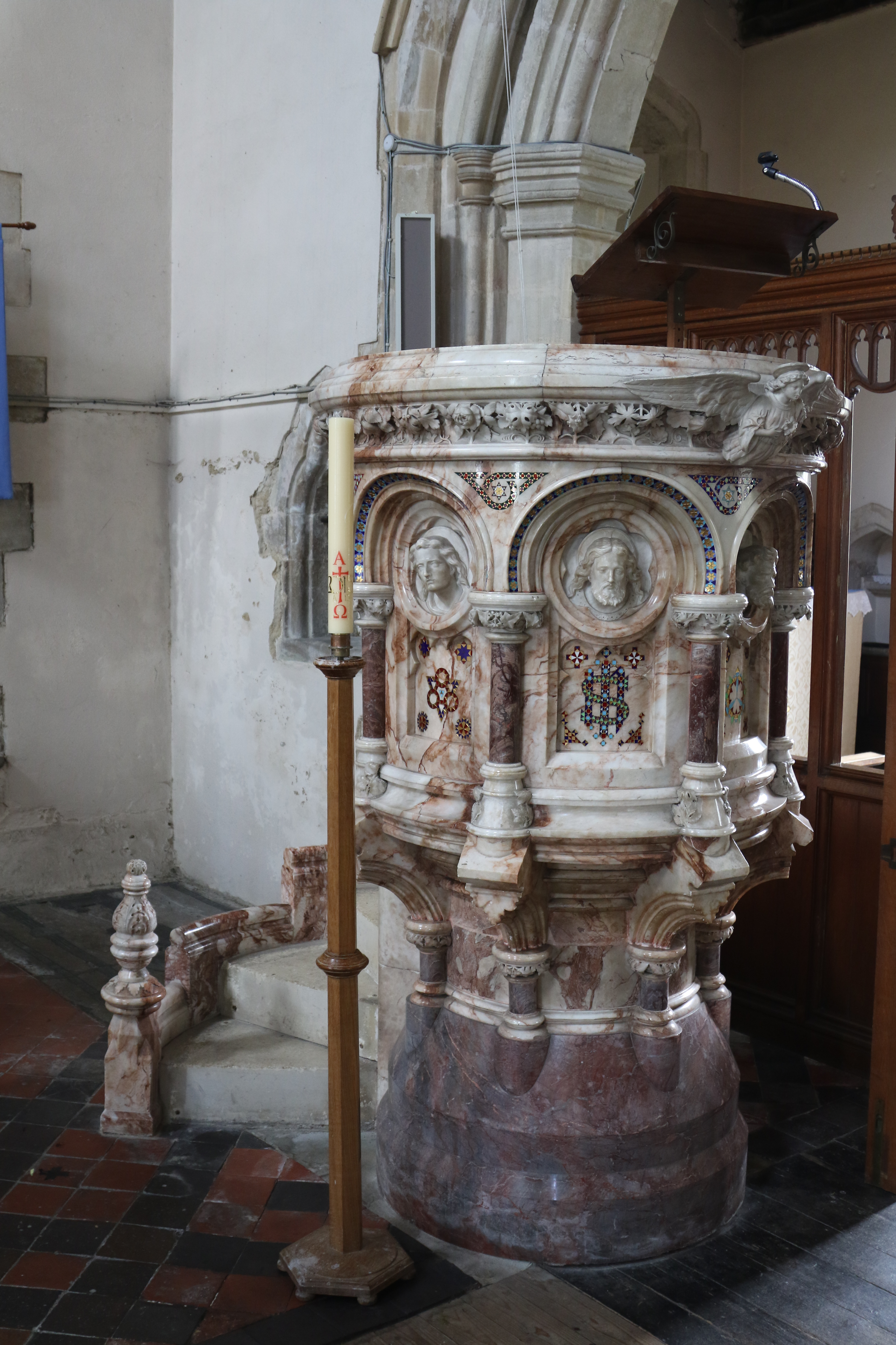 Font in Waddesdon church, moved here from Blenheim Palace chapel